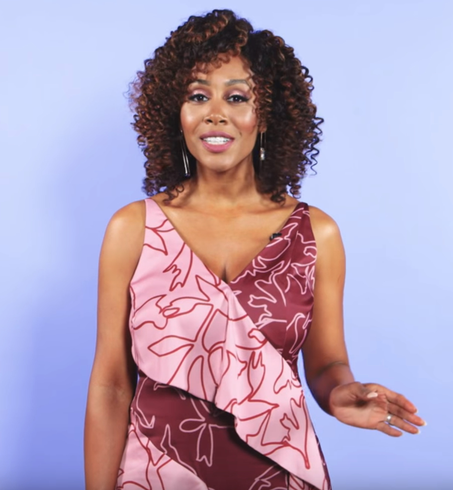 Simone Missick, actress from Luke Cage, during interview in 2018